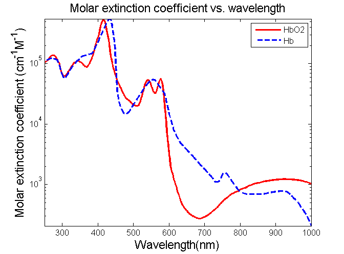 Absorption spectra of oxy- and deoxy-hemoglobin. Molar extintion Vs. wavelenght